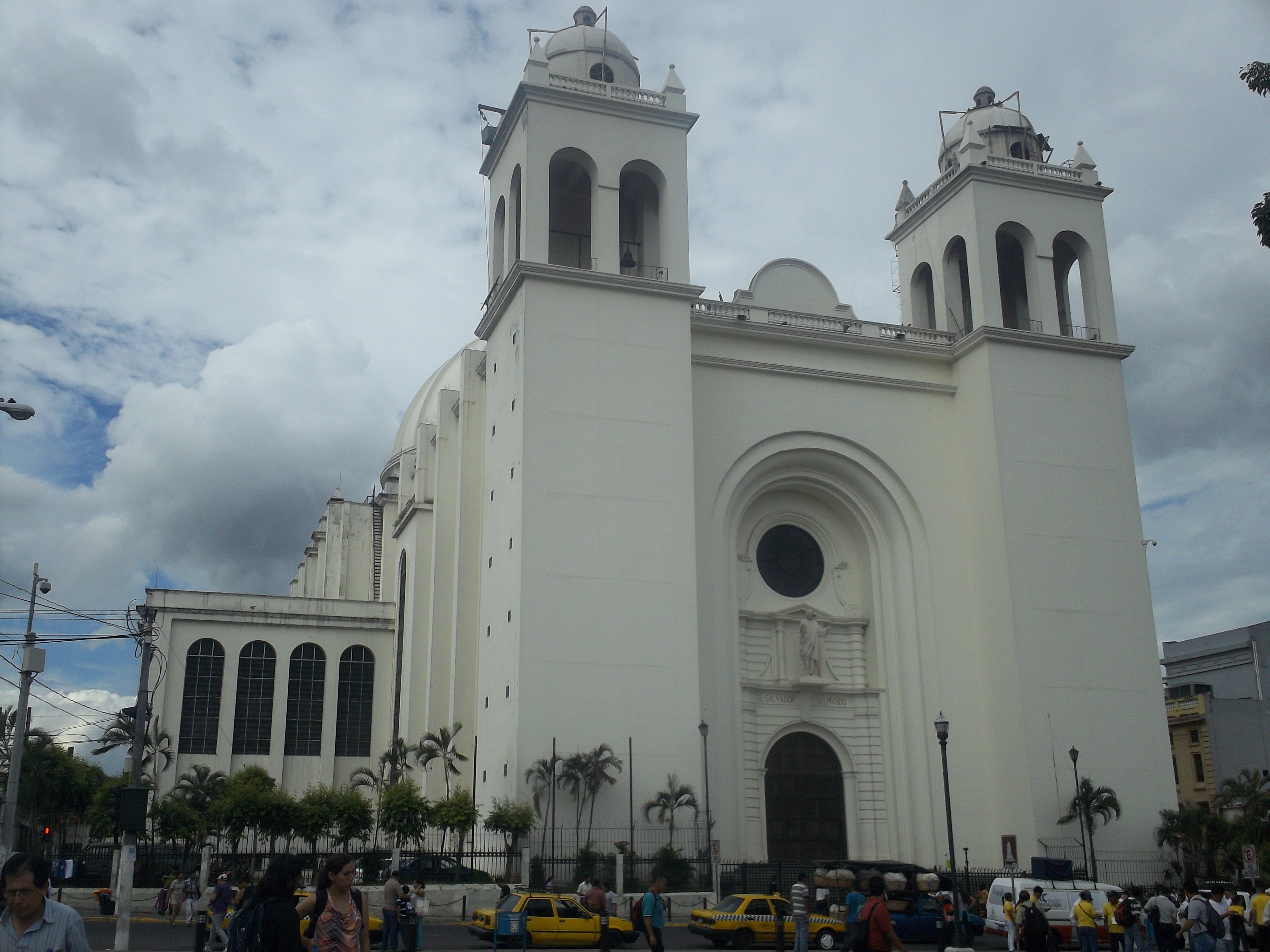 La Iglesia Católica más centrica de San Salvador